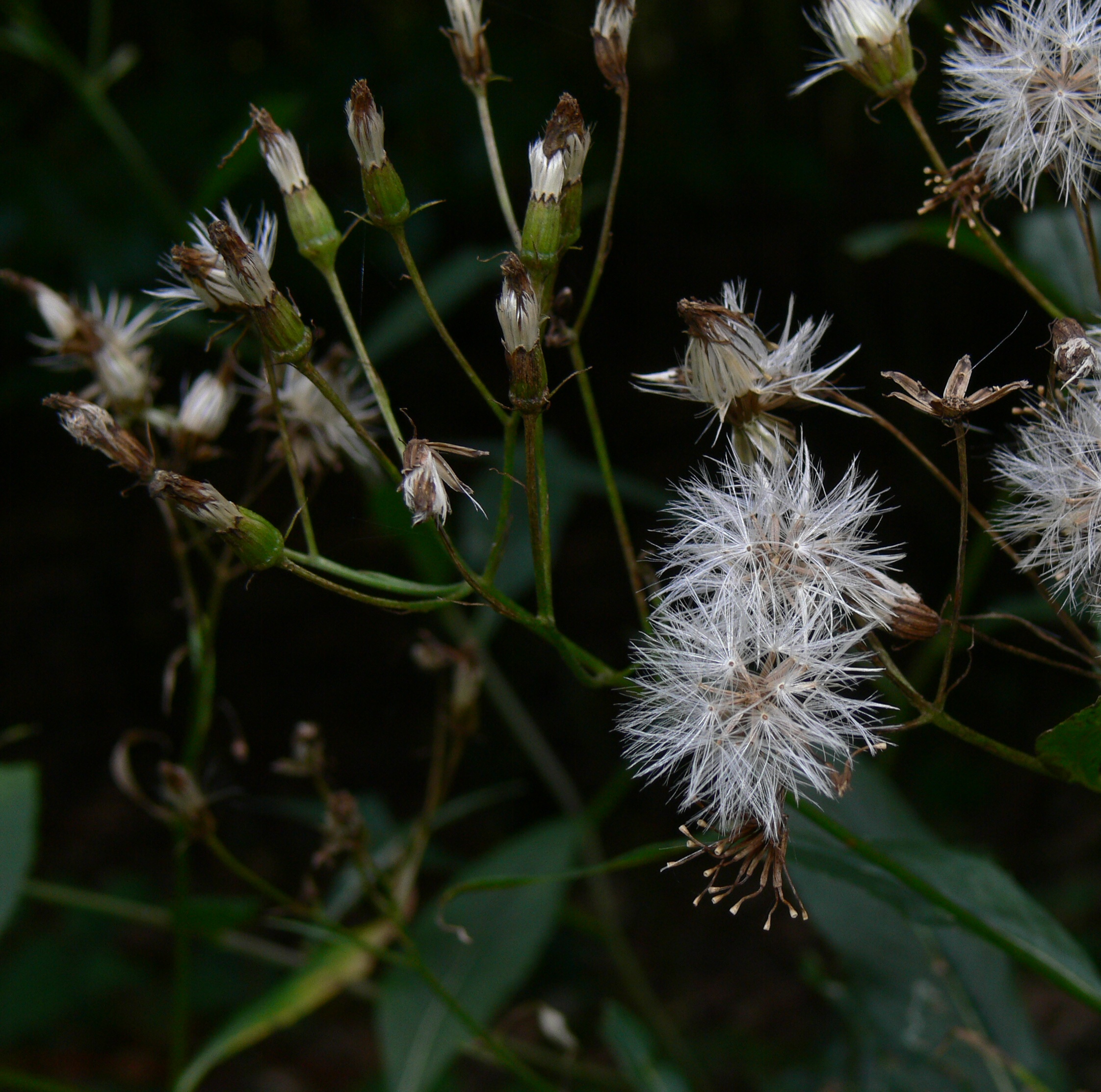 seeds of wood ragwort